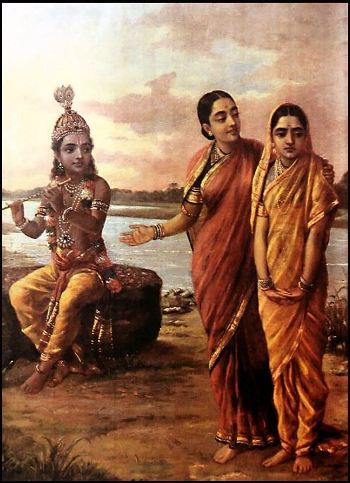 Painting based on Radha and Krishna stories